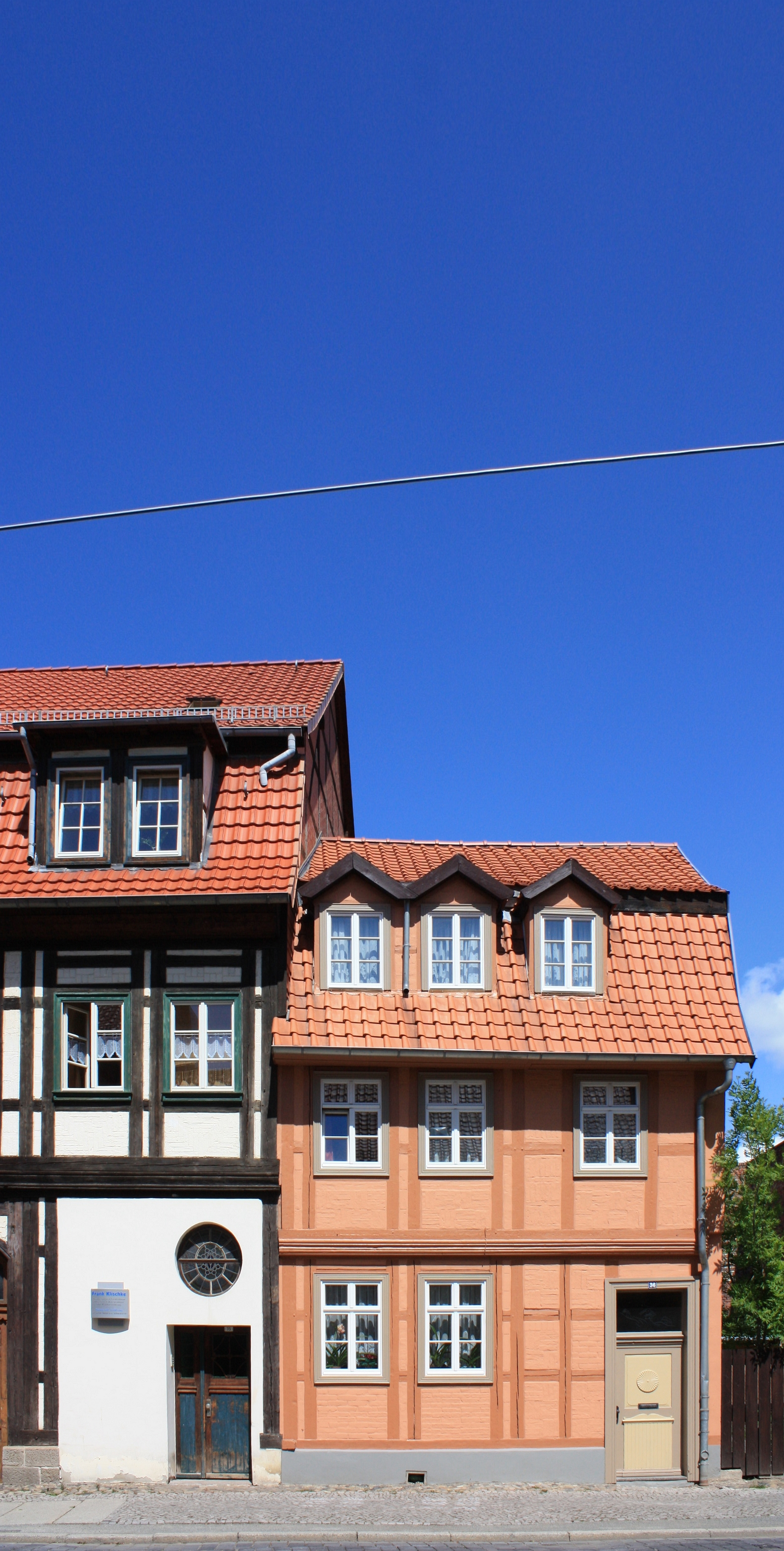 2=Building in Quedlinburg / Germany Steinweg 36